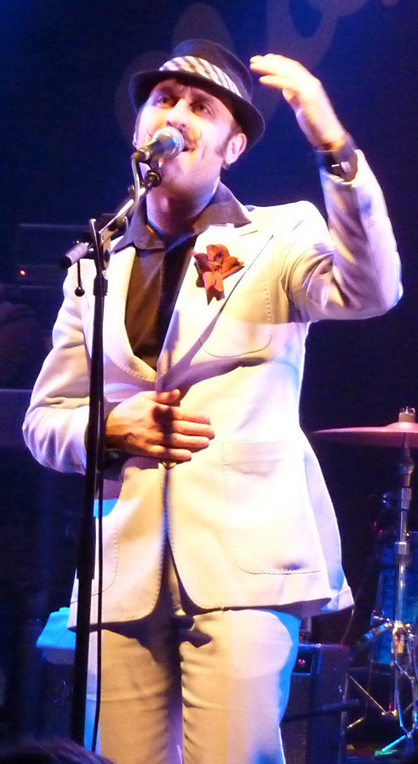 crop of Franz Nicolay from photo singing with Moneybrother in the WUK, Wien/Vienna